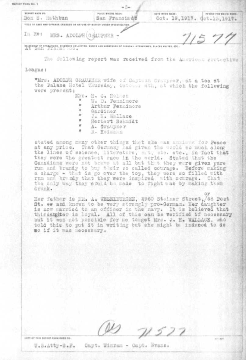 Scan of a typical American Protective League report to the Bureau of Investigation, as found in the National Archives: Publication Number: M1085 Publication Title: Investigative Case Files of the Bureau of Investigation 1908-1922 Publisher: NARA Series: Old German Files, 1909-21 Collection Title: Investigative Reports of the Bureau of Investigation 1908-1922